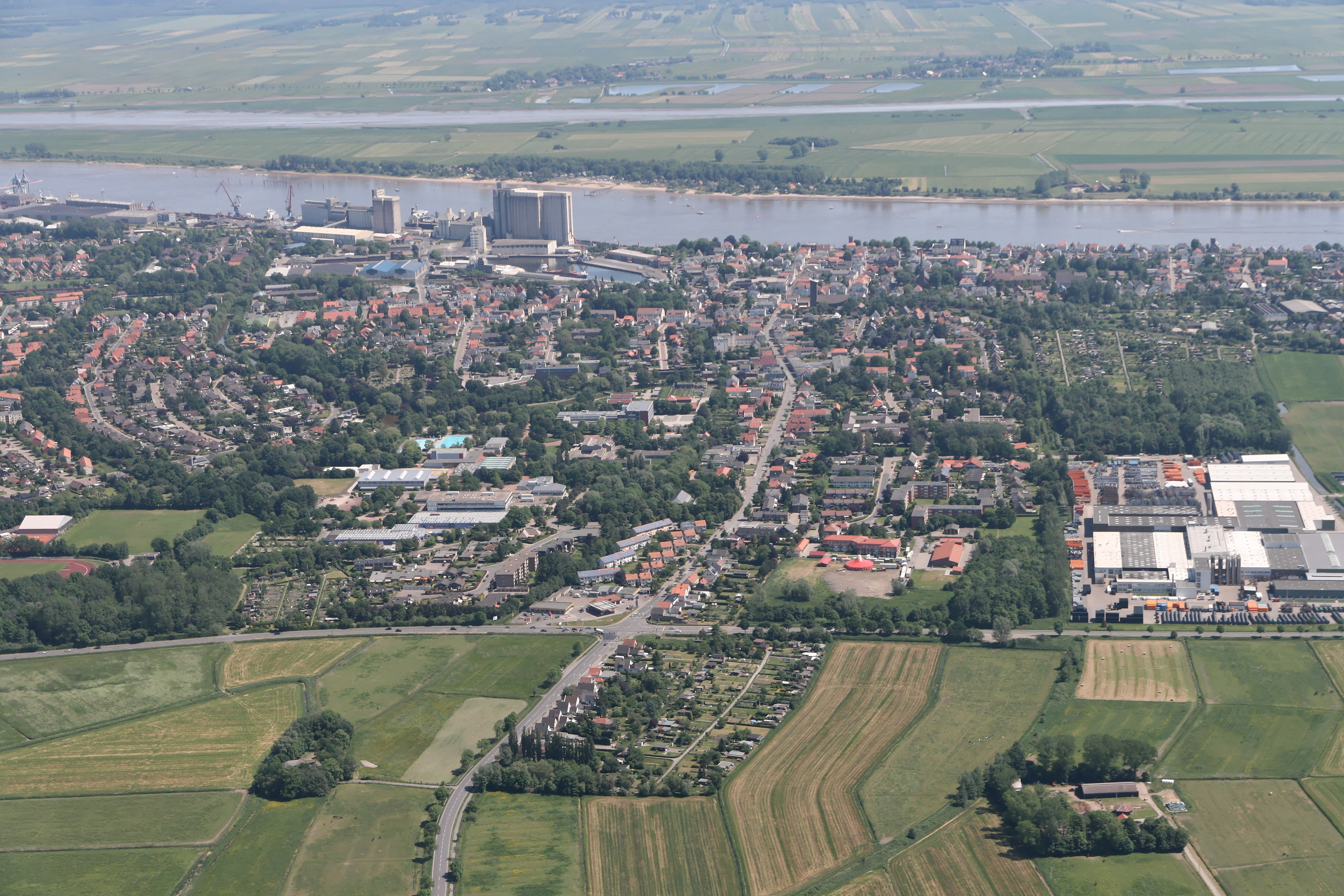 A aerial photograph of Brake (Unterweser)(showing Rehau site, inner harbour and silo at "Südpier")